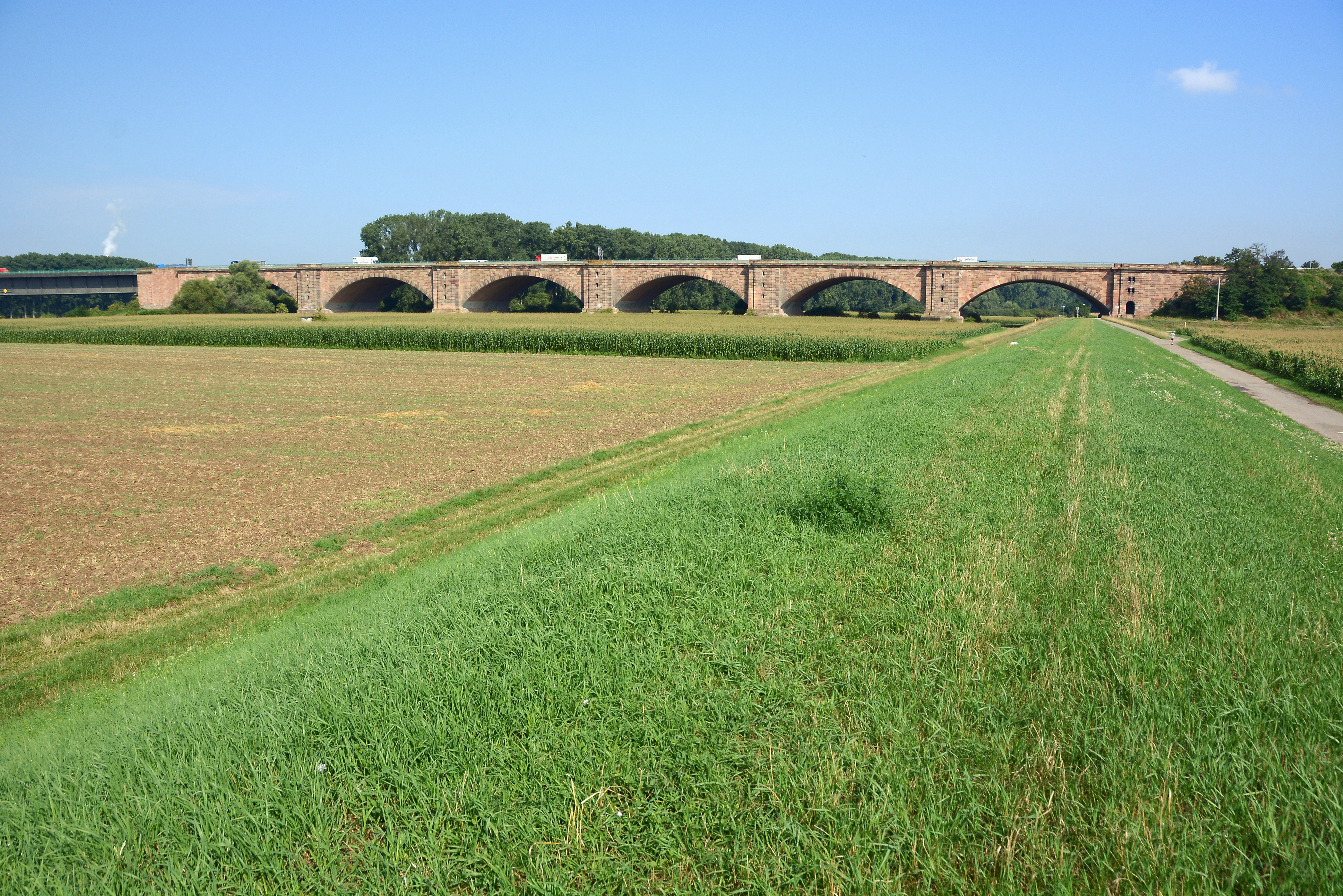 Theodor-Heuss-Bridge, German federal motorway "Autobahn 6 over the Rhine near Mannheim/Ludwigshafen/Frankenthal, part at the right banks of the Rhine near Mannheim-Sandhofen, view from South